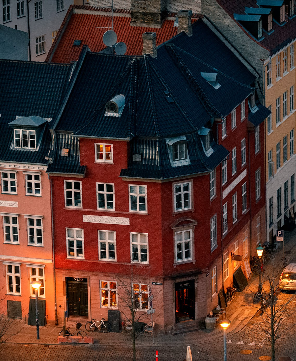 The Sundorph House viewed from the tower of Christiansborg Palace in Copenhagen, Denmark